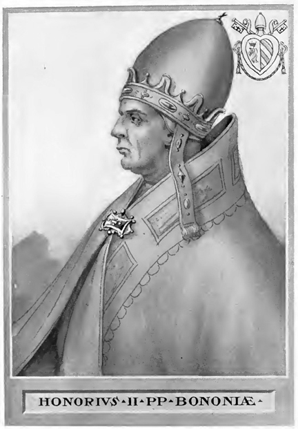 This illustration is from The Lives and Times of the Popes by Chevalier Artaud de Montor, New York: The Catholic Publication Society of America, 1911. It was originally published in 1842.